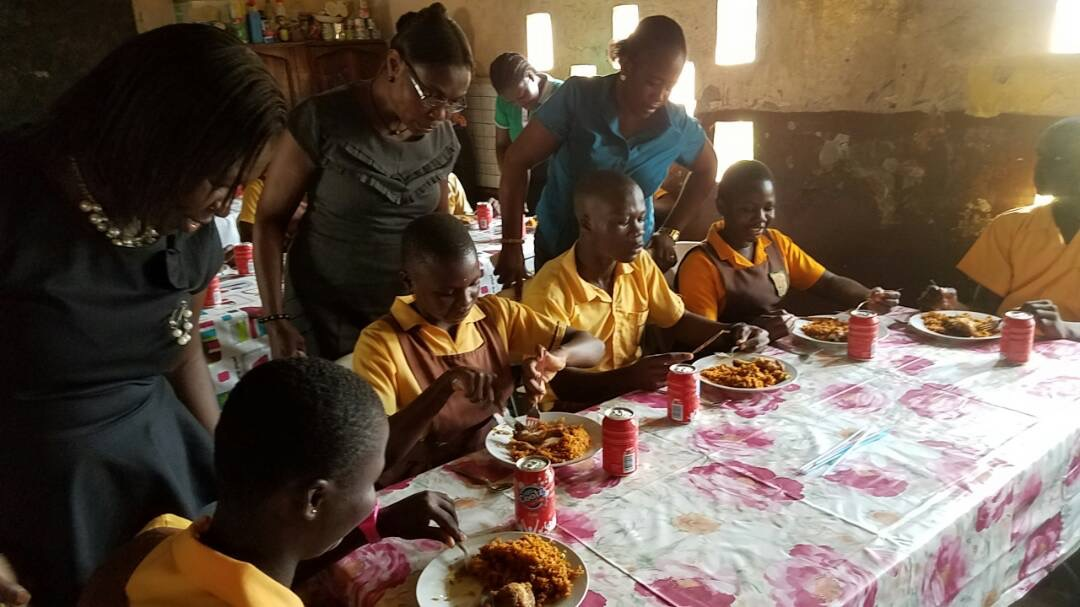 Etiquette training for students at a local government school in the Teshie Krobo district. This is an image of "African people at work" from Ghana